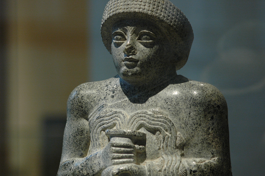 Gudea